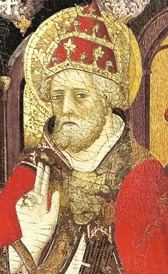 Gothic portrayal of Pope Luna